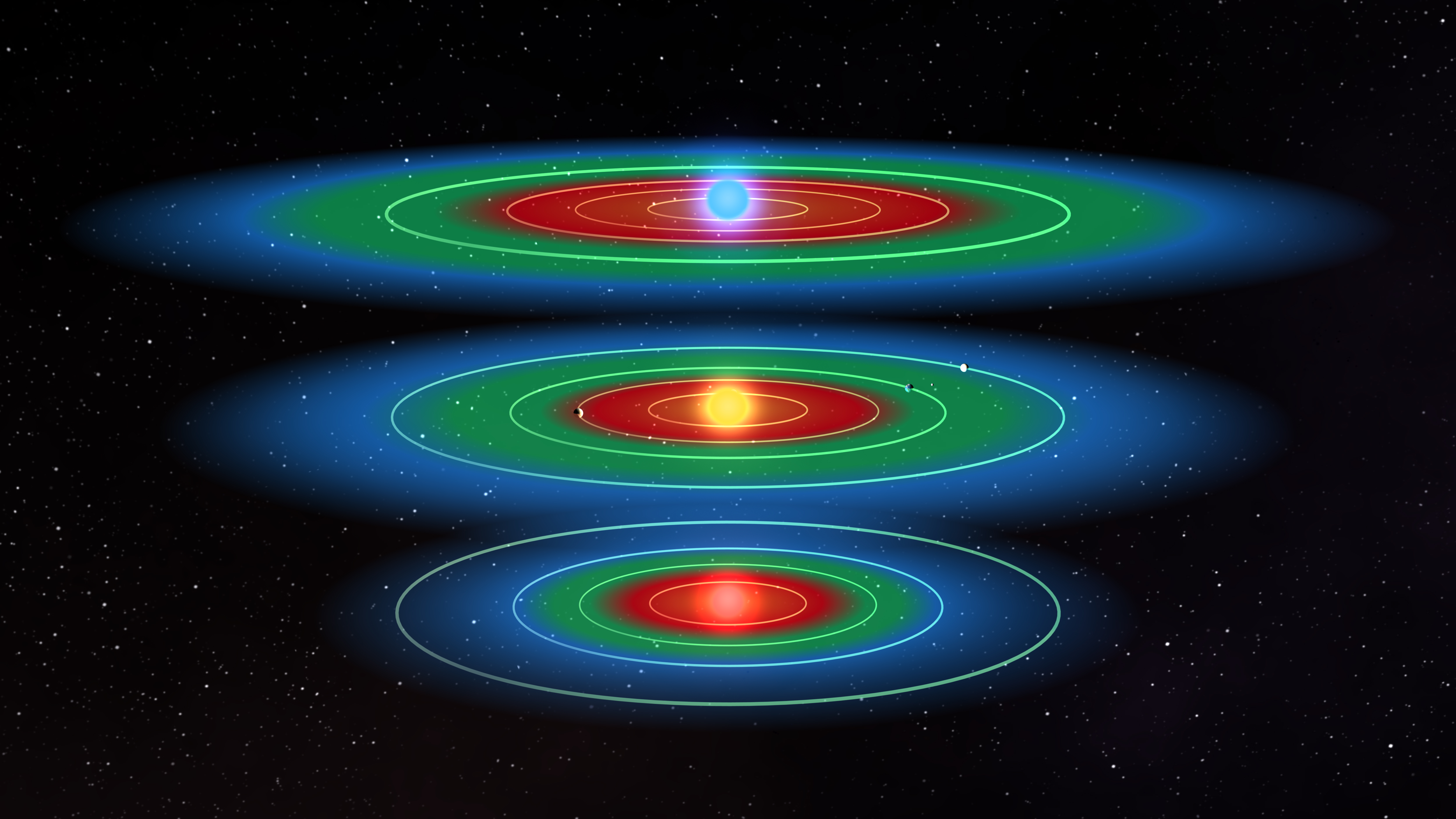 A diagram that shows the range of the habitable zone for different sizes of stars.